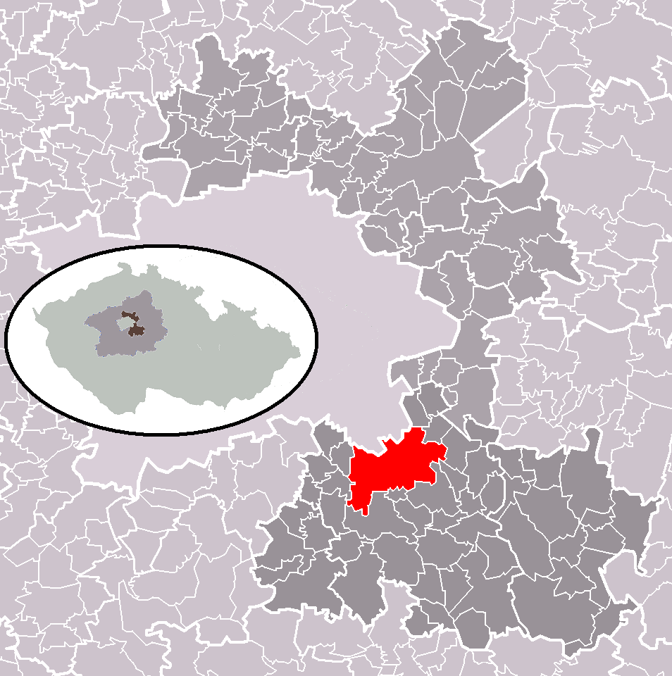 Location of Říčany town within Prague-East District and administrative area of Říčany as a Municipality with Extended Competence.